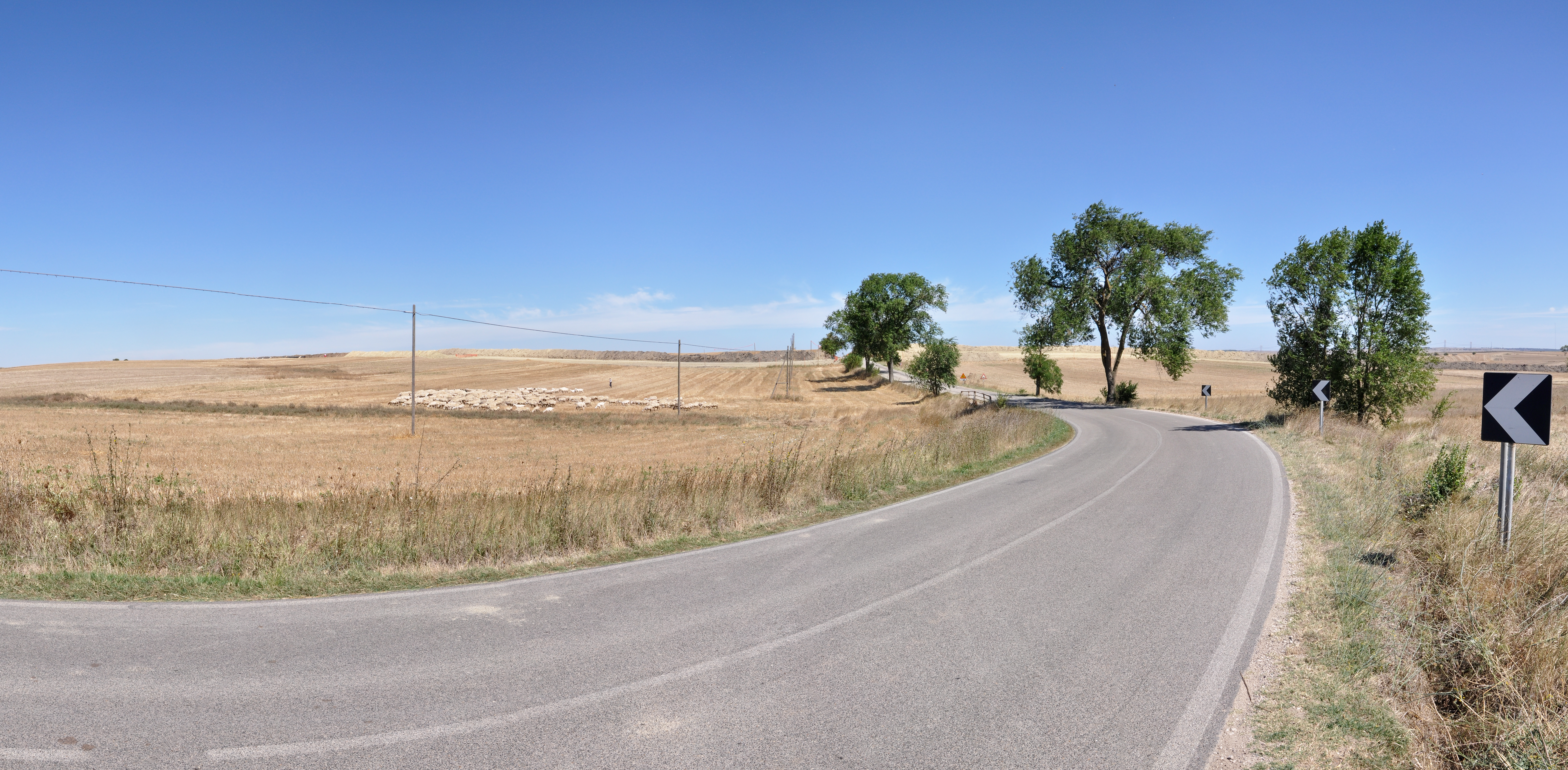 Strada Provinciale Matera-Gioia del Colle - Near Matera, Italy